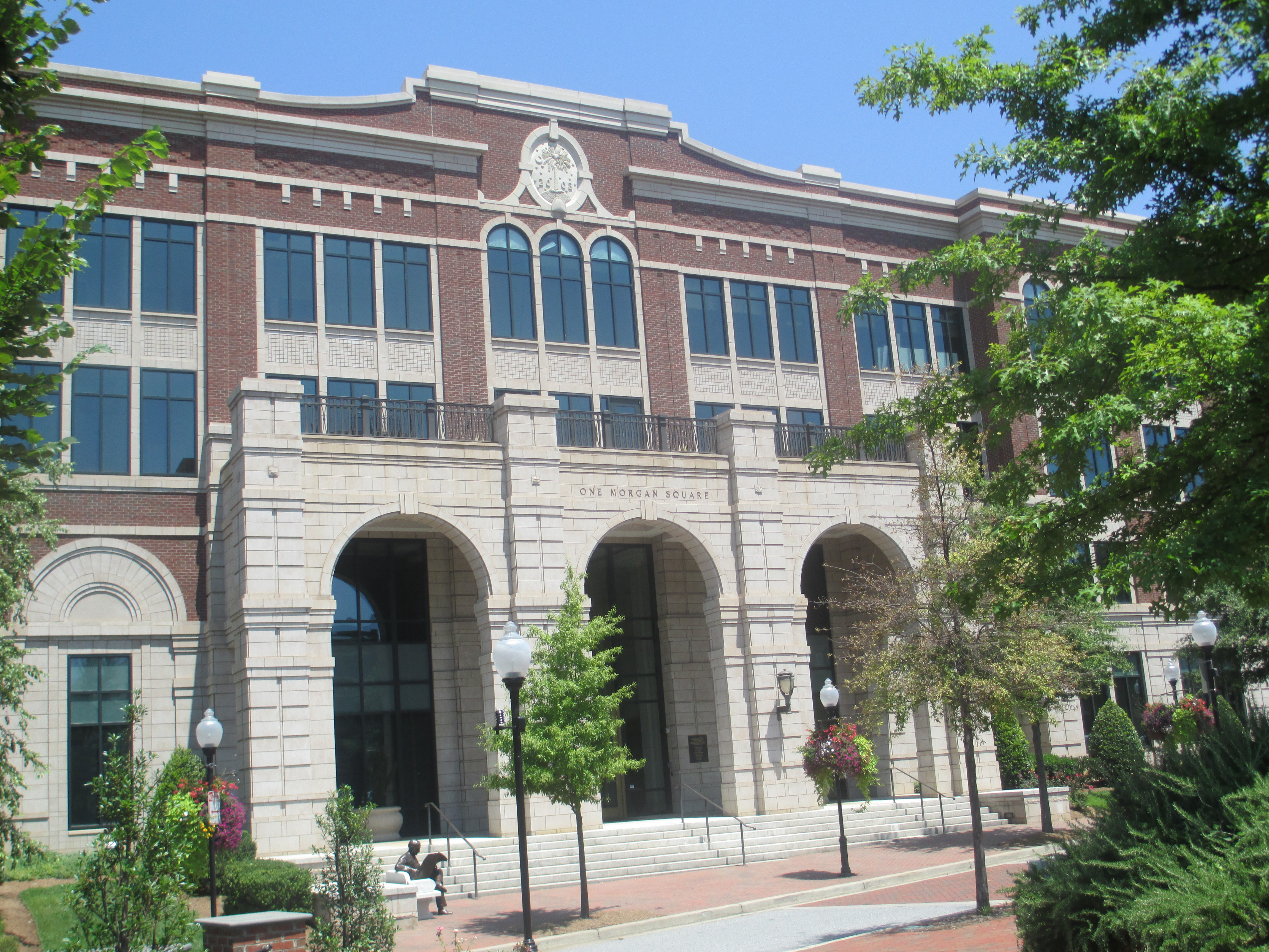 I took photo of Morgan Square with Canon camera in Spartanburg, SC.